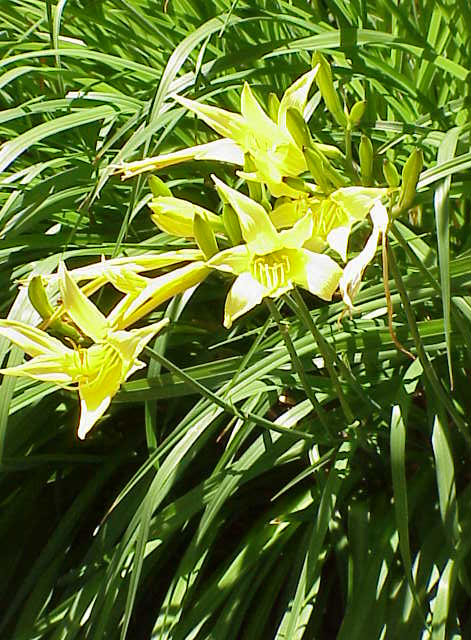 Hemerocallis thunbergii Family:Liliaceae Image no. 2